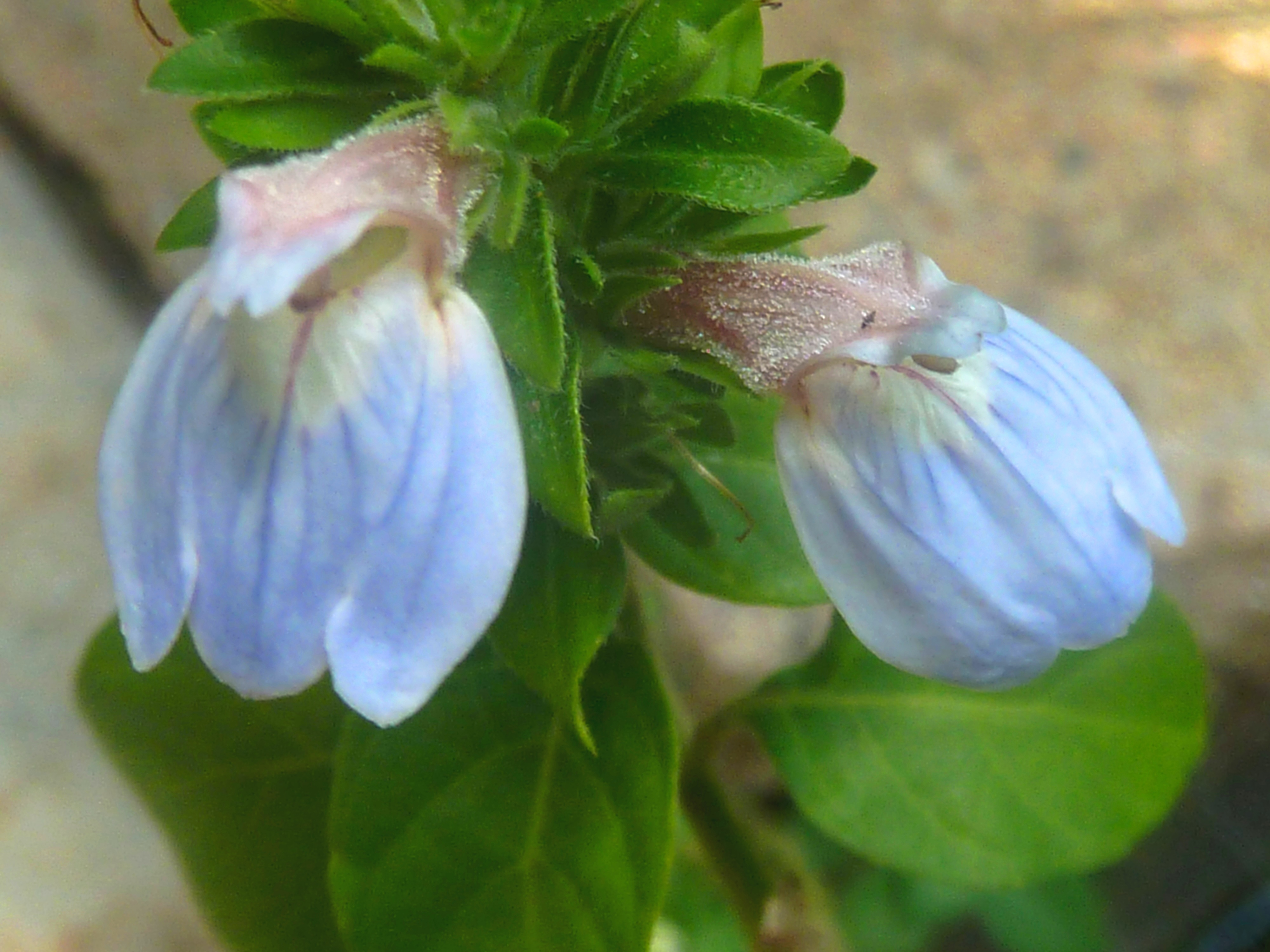 Blue justicia at the water harvesting garden of the Manie van der Schijff Botanical Garden, Pretoria